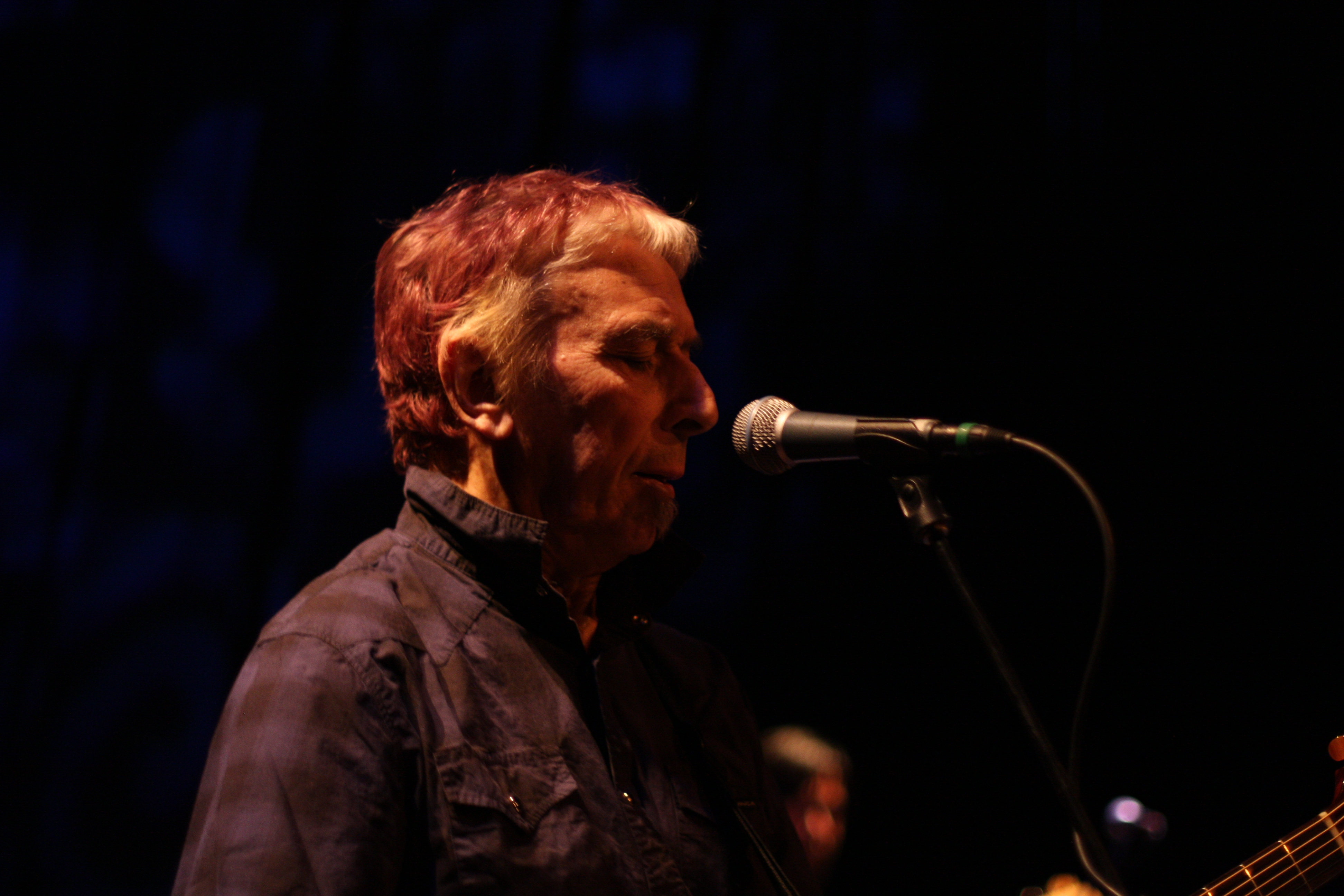 John Cale at Moods, Zurich, Switzerland (6 November 2011)